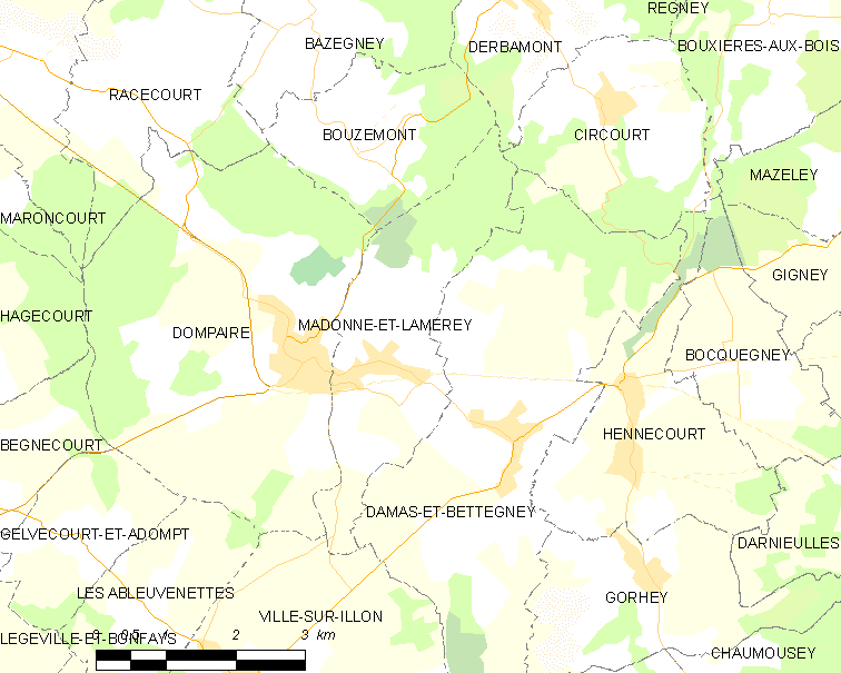 Map of French municipality Madonne-et-Lamerey